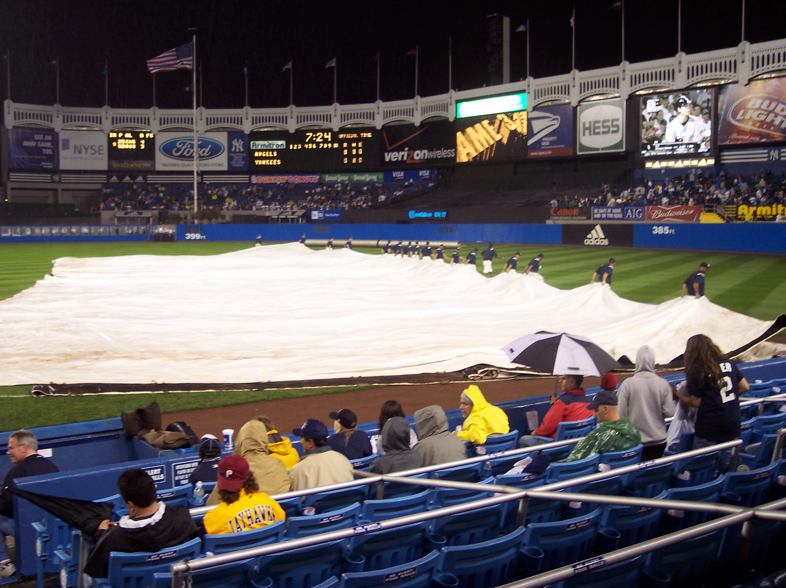 Source: I, the Silent Wind of Doom took the picture at Yankee Stadium03:54, 14 November 2006 . . Silent Wind of Doom . . 2580×1932 (966,799 bytes)